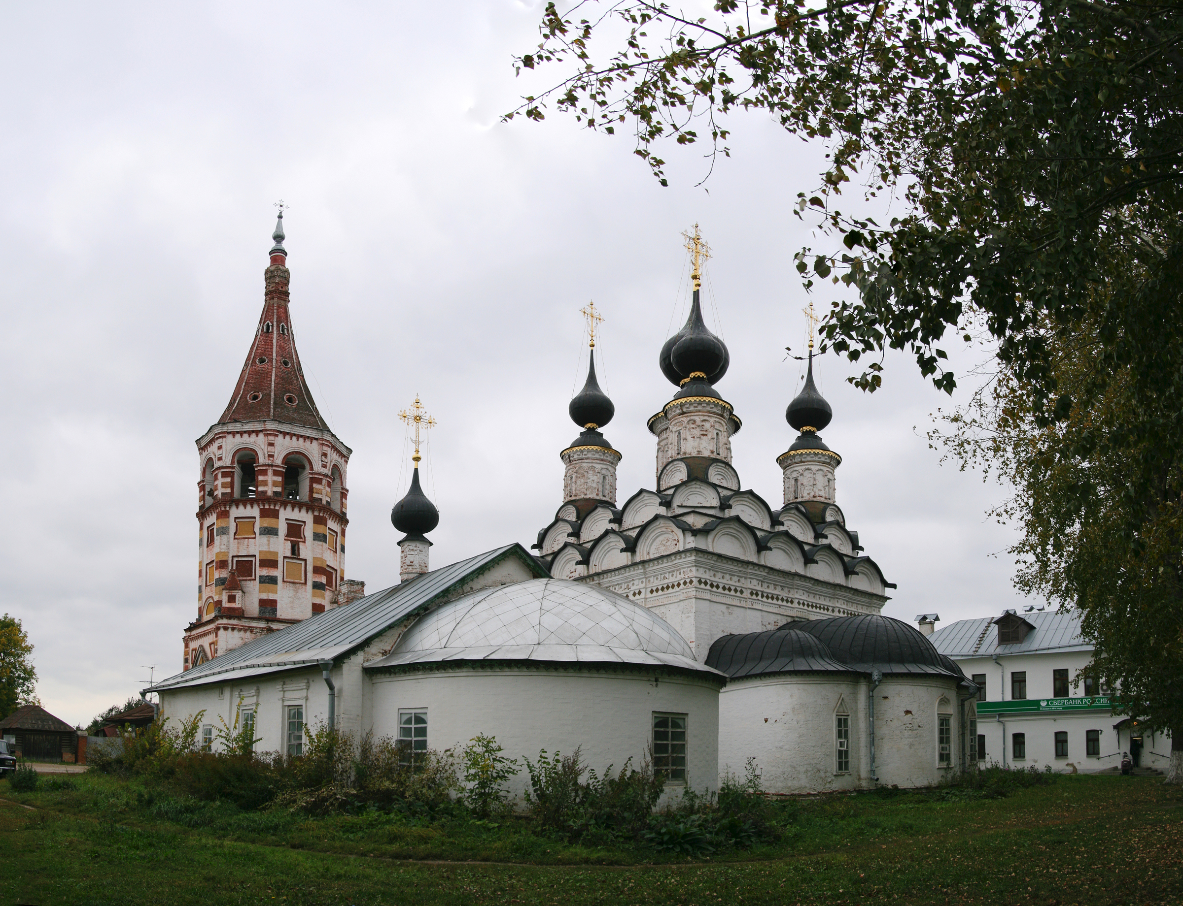 Wintry Saint Antipas (1745) and Summary Saint Lazarus (1667) Churches, Suzdal